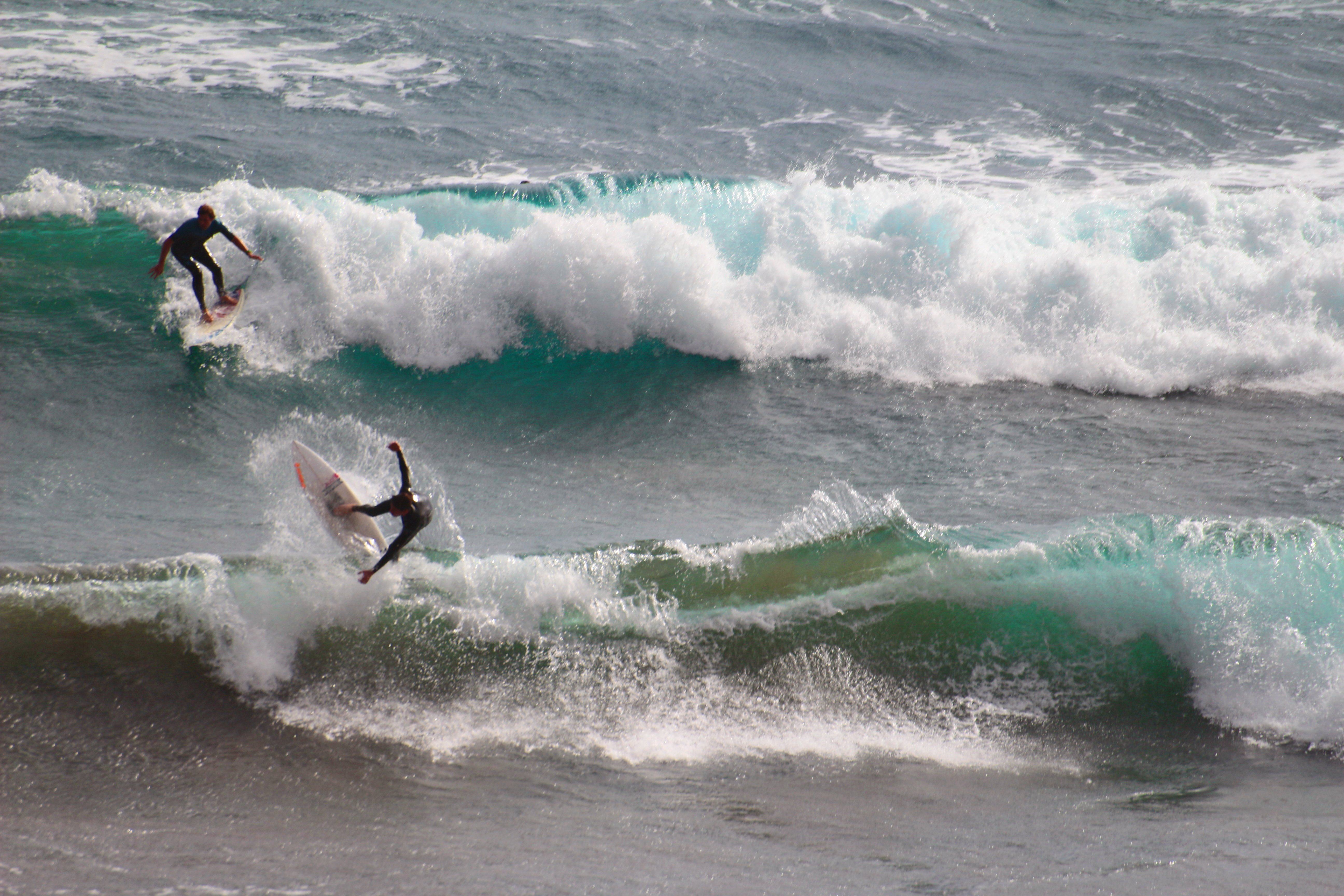 surfing wave